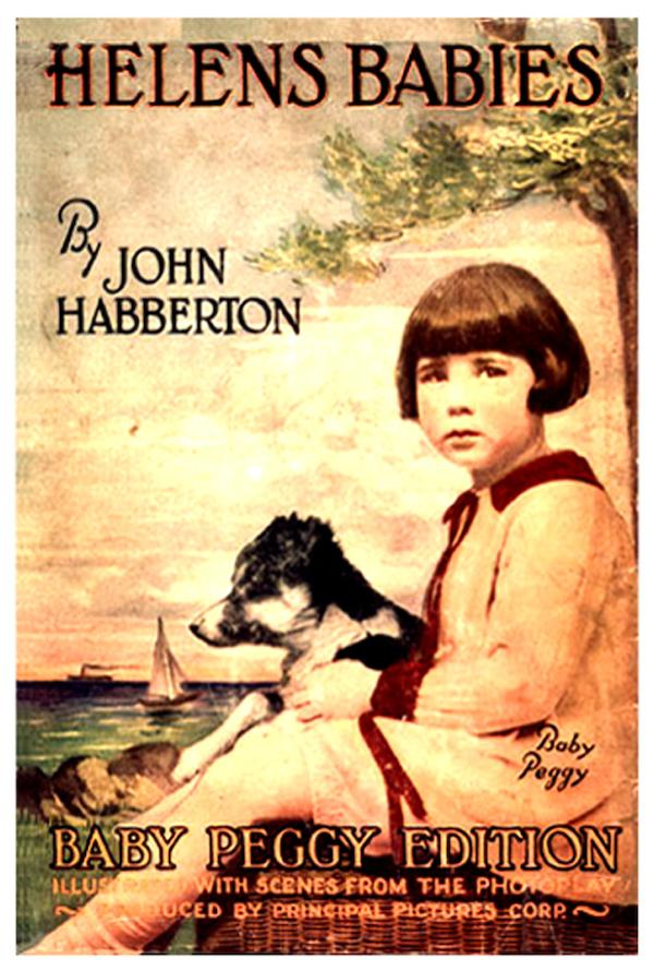 cover art to a 1924 edition of John Habberton's novel Helen's Babies featuring Baby Peggy